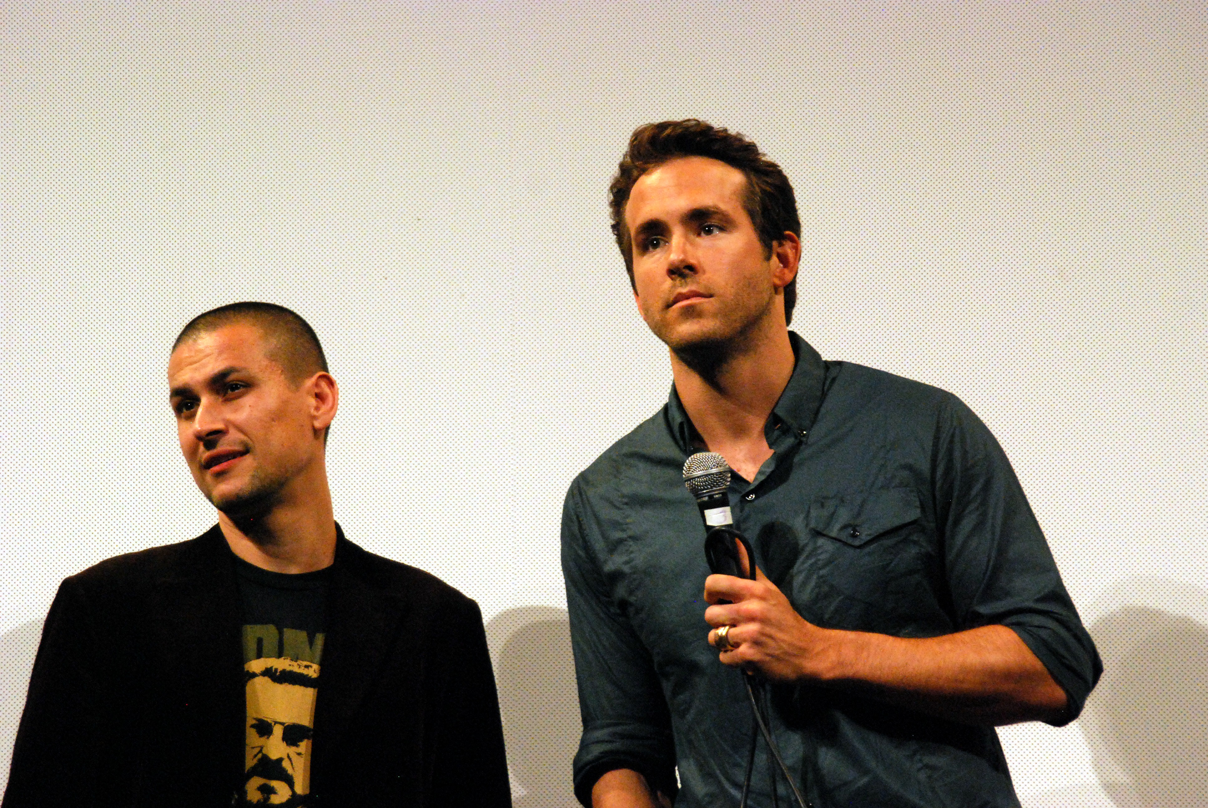 Spanish director Rodrigo Cortés and american actor Ryan Reynolds